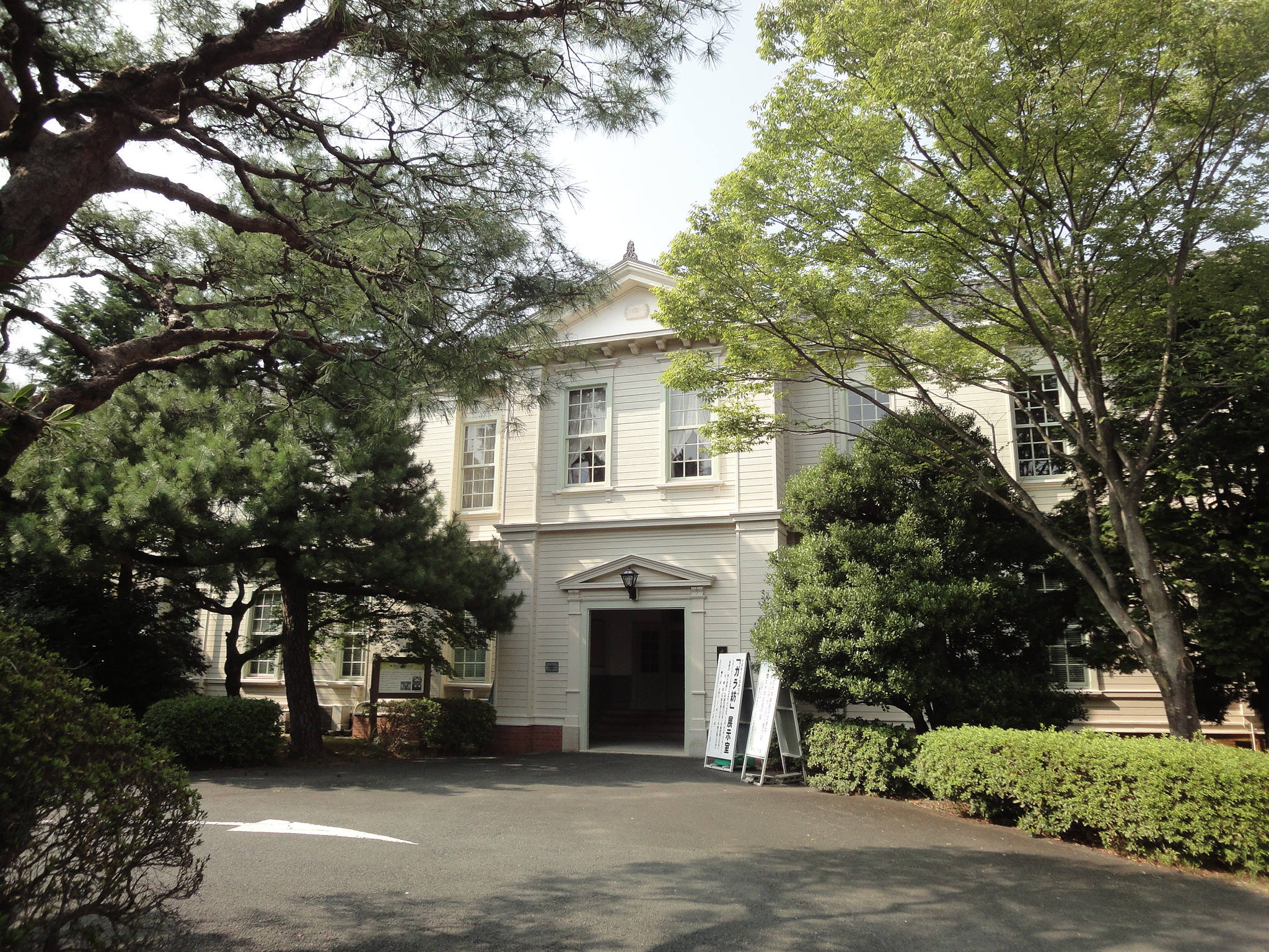 University Memorial Hall of Aichi University (formerly Main building)